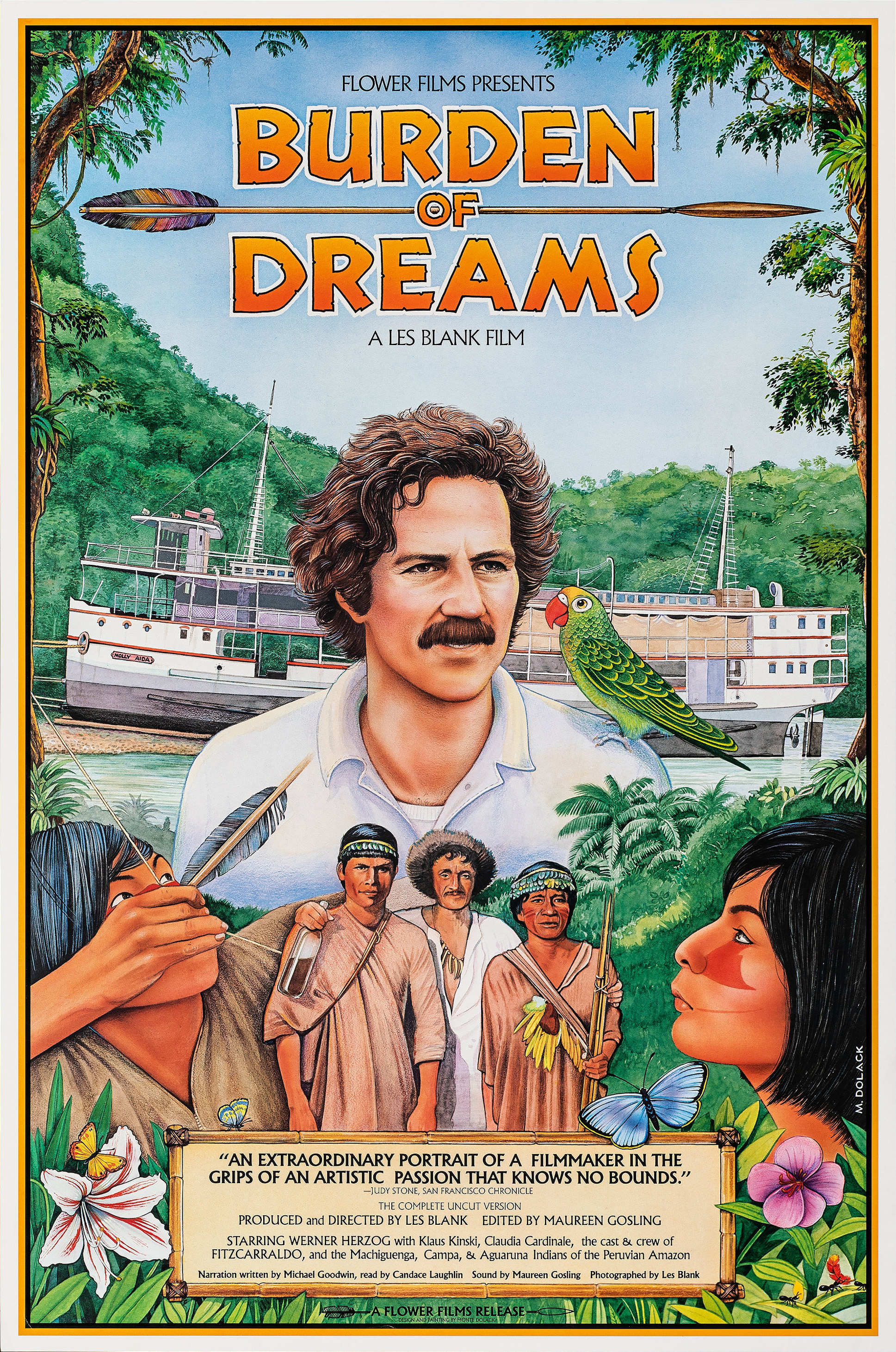 Theatrical release poster for Les Blank's 1982 "making-of" documentary film Burden of Dreams, following German filmmaker Werner Herzog and his cast and crew deep into the Amazon rainforest during the ambitious, troubled production of Fitzcarraldo. Herzog is pictured at center with a parrot on his shoulder. A steamboat used for the film is in the background on a river in the jungle, while indigenous Asháninka (referred to as "Campa" in the film) and Machiguenga people are seen in the foreground.